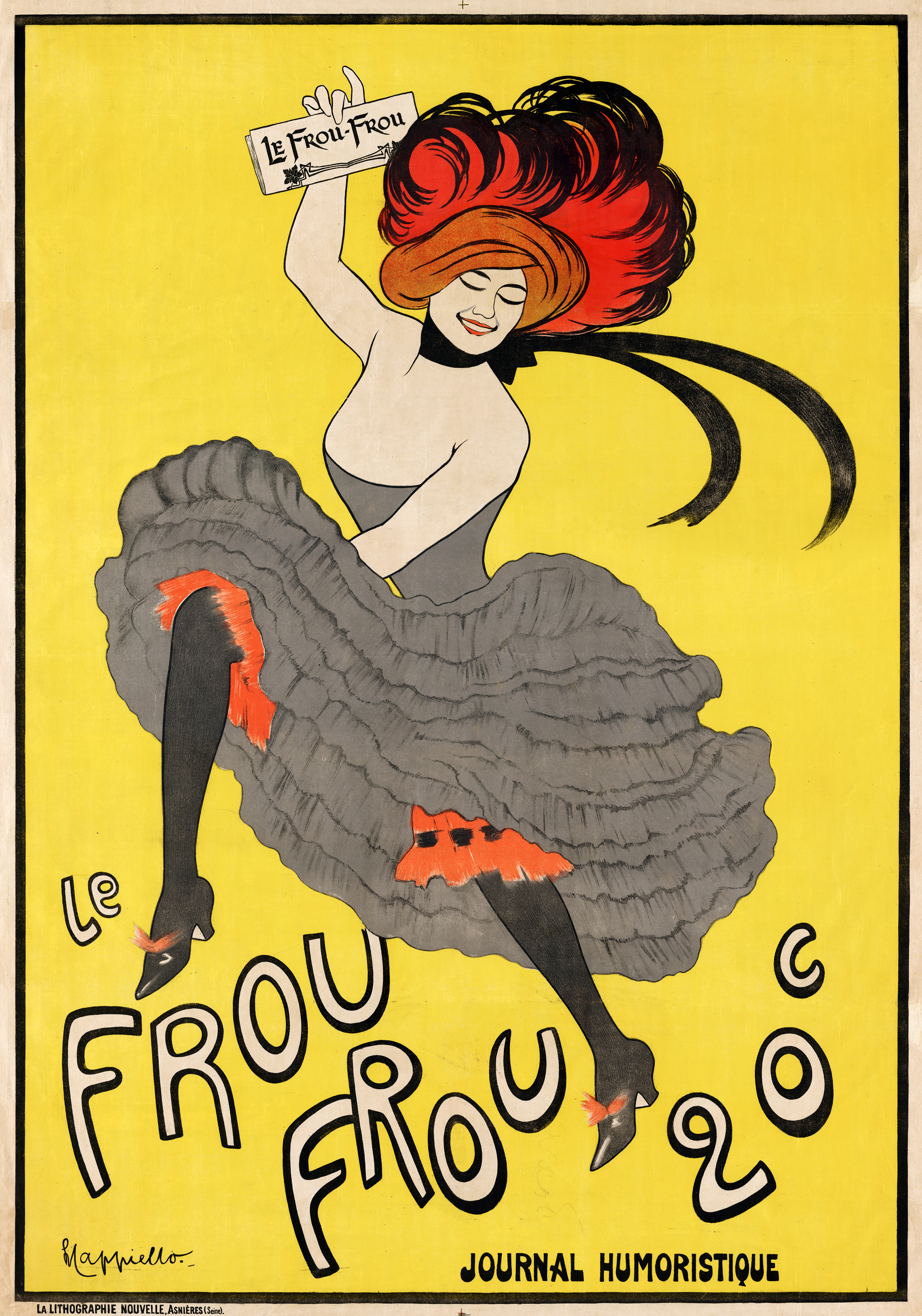 Le Frou Frou, journal humoristique, 20 centimes. Advertising poster by Leonetto Cappiello shows a can-can dancer holding a copy of "Le Frou Frou" while she dances.